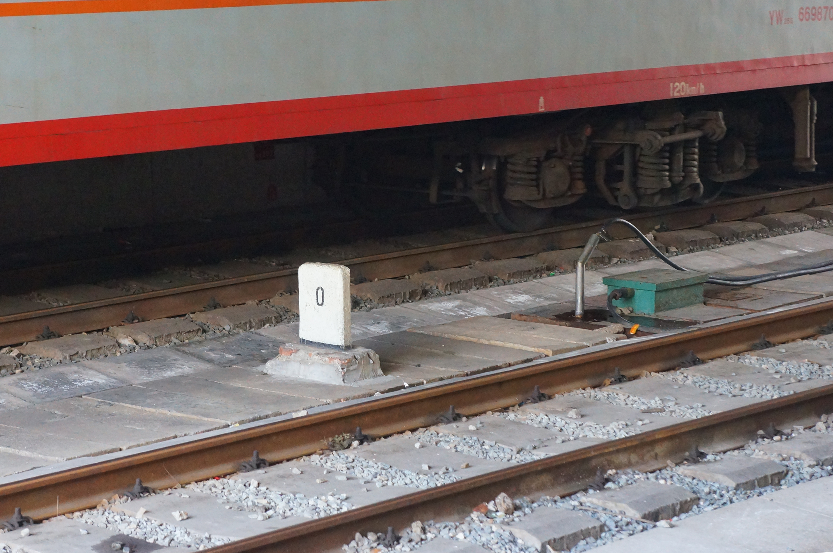 0 km pile of SH-KM Railway in SHA